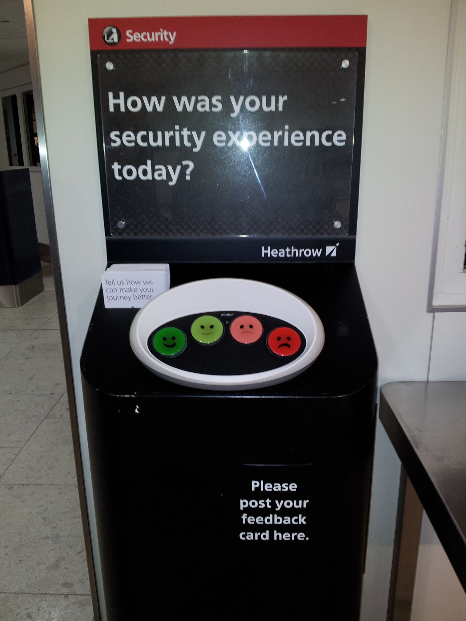 HappyOrNot customer satisfaction feedback terminal at Heathrow Airport.